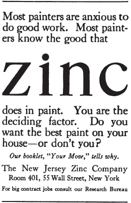 Advertisement by The New Jersey Zinc Company, advocating paint containing zinc